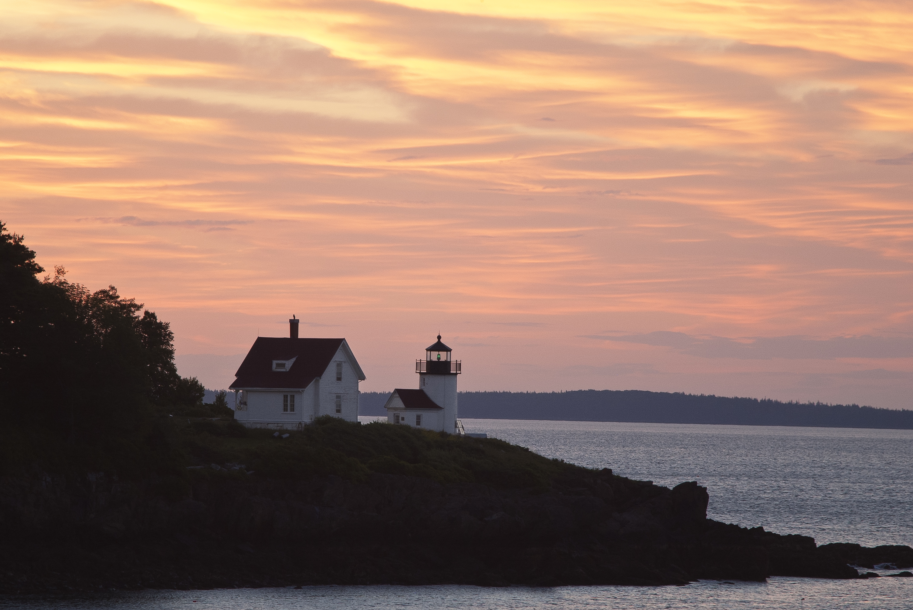 Curtis Island Lighthouse, Camden, Maine, USA.